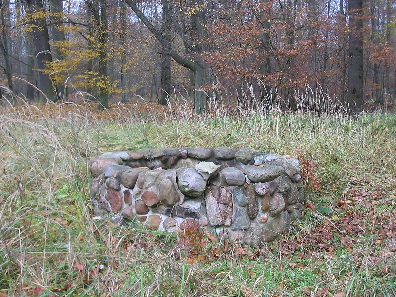 Water well in the abandoned village Schleesen. Schleesen is situated in the north of the municipality Stackelitz in the nature park Fläming. Stackelitz belongs to the district Anhalt-Zerbst, state Saxony-Anhalt, Germany.